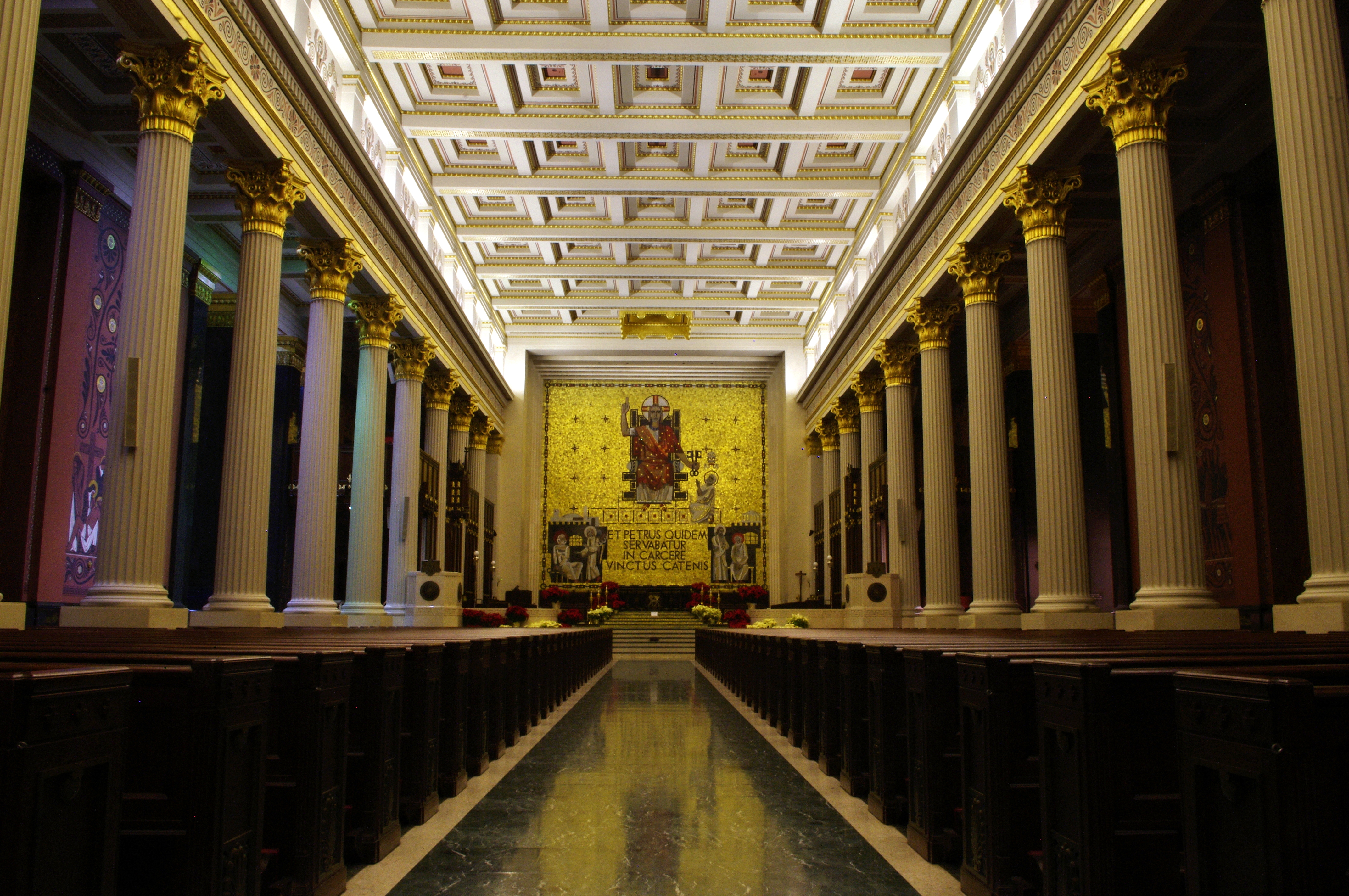 Saint Peter in Chains Cathedral (Cincinnati, Ohio) - interior, nave